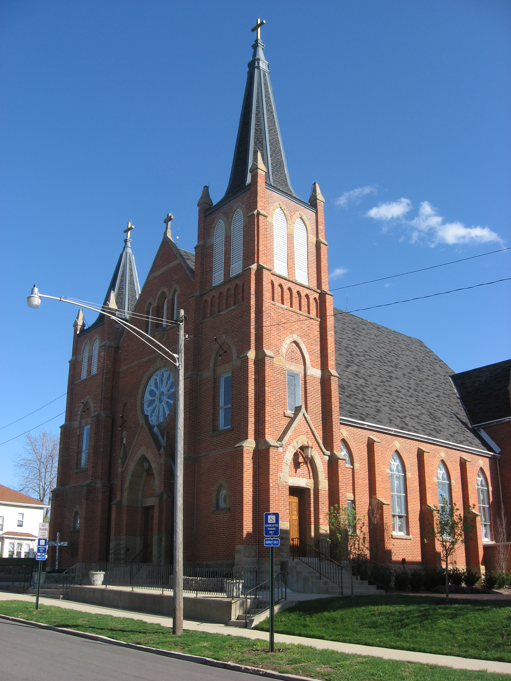 Front and western side of St. Patrick's Catholic Church, located at 328 E. Patterson Avenue in Bellefontaine, Ohio, United States.